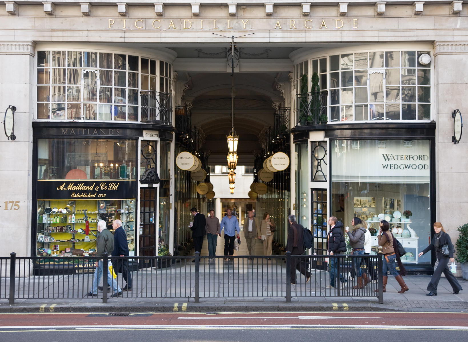 Piccadilly Arcade from the north side of Piccadilly. Taken by myself with a Canon 5D and 24-105mm f/4L lens.